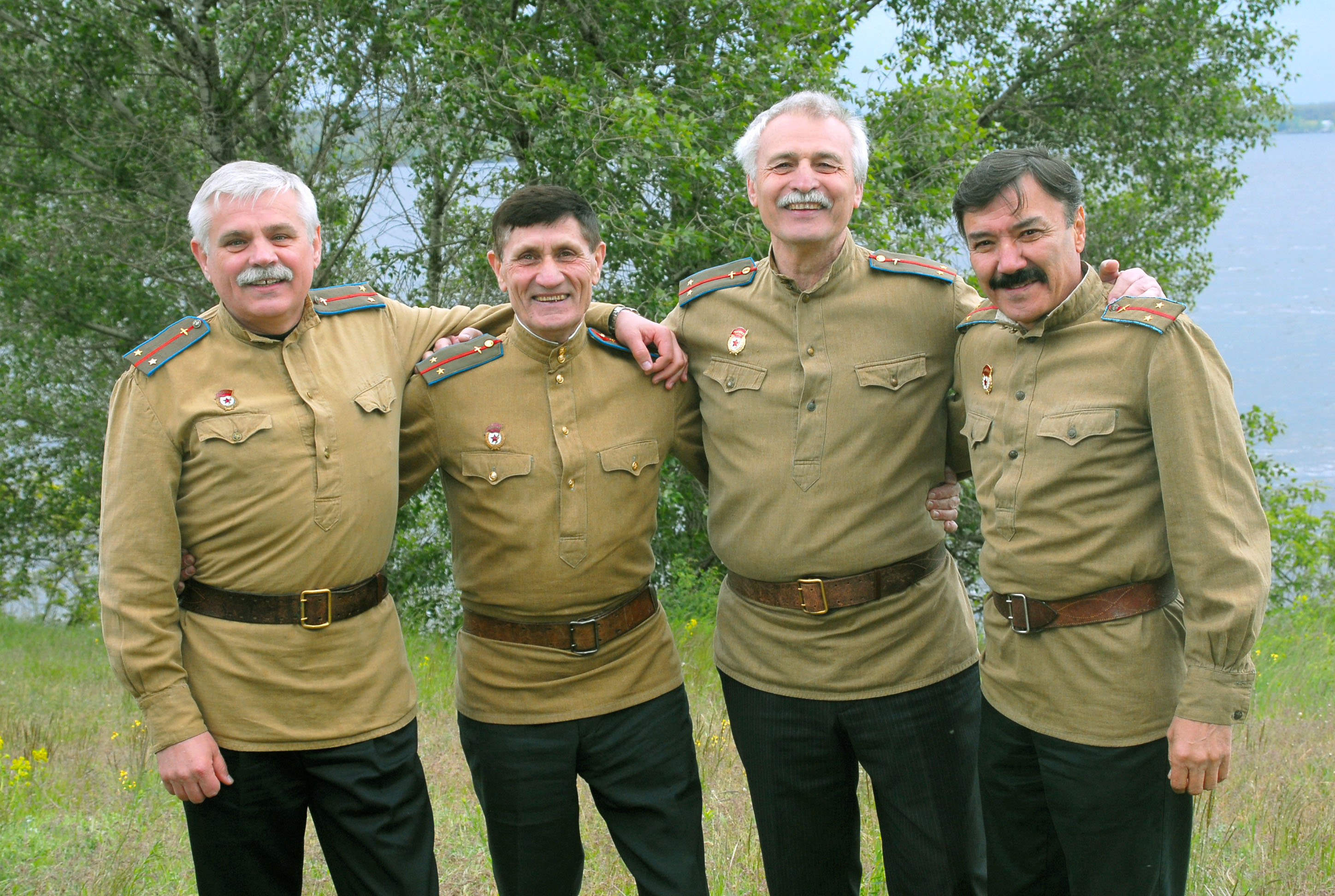 Actors of film «Only „Old Men“ Are Going Into Battle» 35 years later (2008). Nemchenko A. D., Fedorinsky A. V., Pascenco V. I. and Sagdullaev R. A.